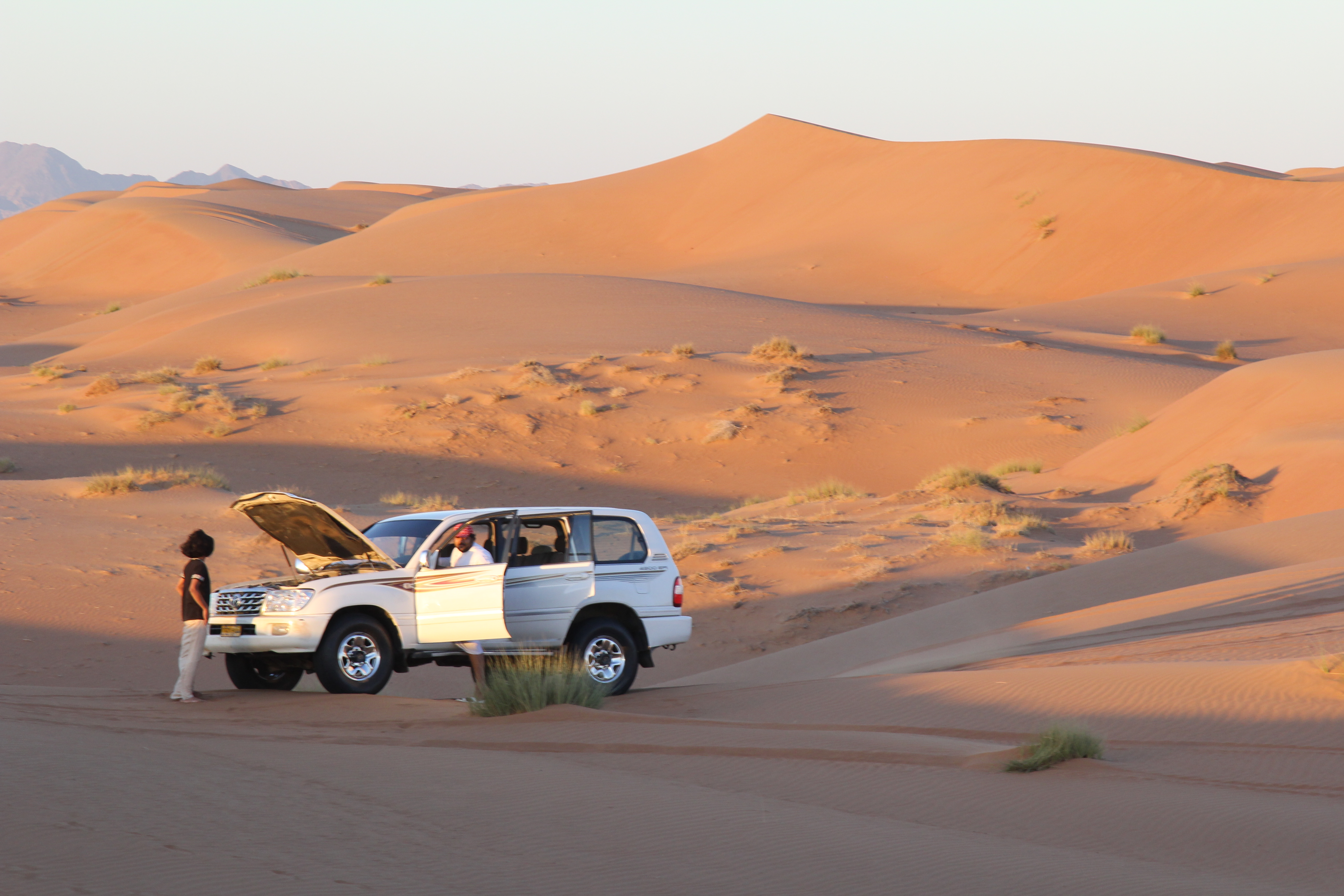 Oman 2014